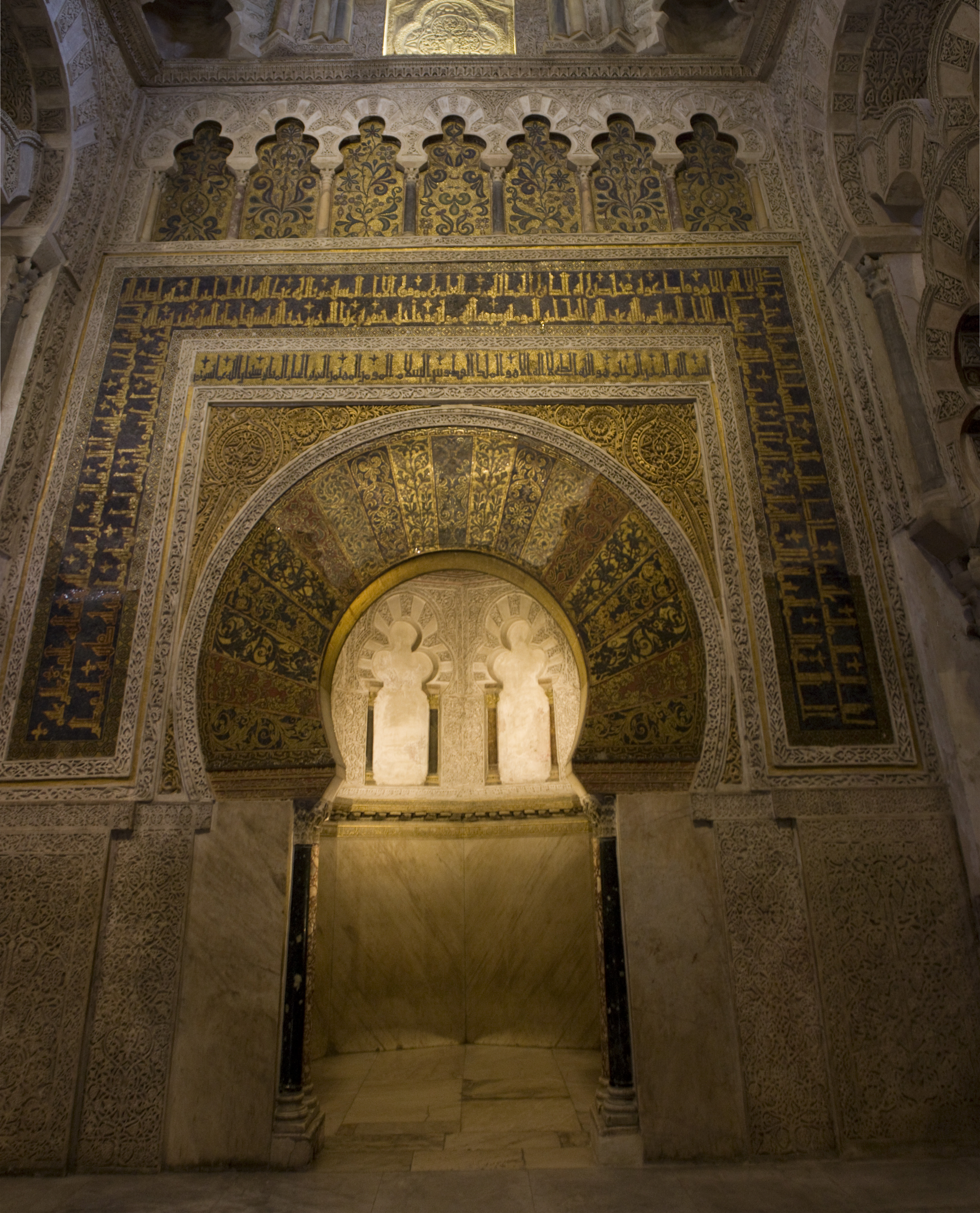 The Qibla wall and Mihrhâb.